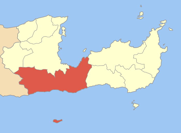 Locator map of Ierapetra municipality (Δήμος Ιεράπετρας) in Lasithi prefecture (Νομός Λασιθίου) in Greece.